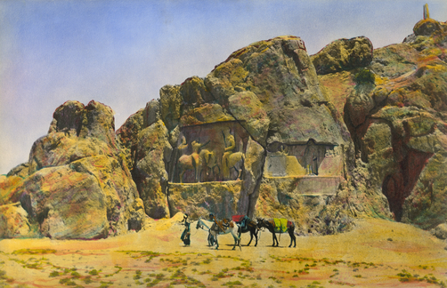 Naqsh-e Rustam, Iran